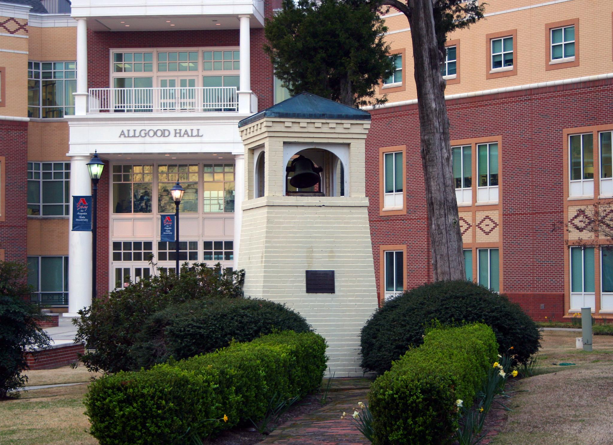 Augusta, Georgia, USA. Georgia Regents University. Allgood Hall, belltower in foreground